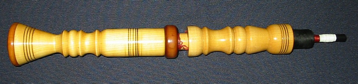 The "tenor drone" of Baghèt with its sections assembled